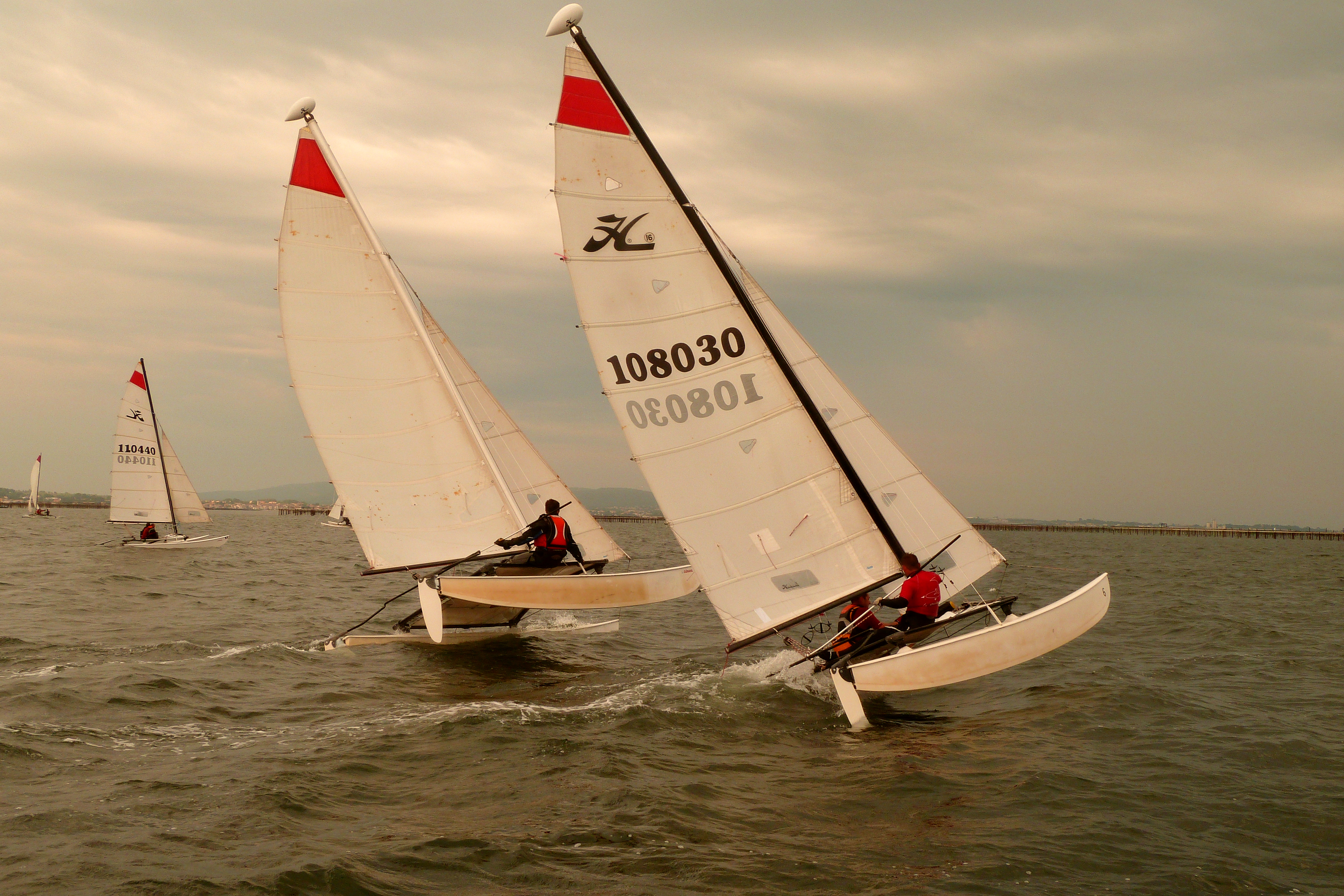 Raid Cata 2011 of the Glénans sailing school, on Hobie cats